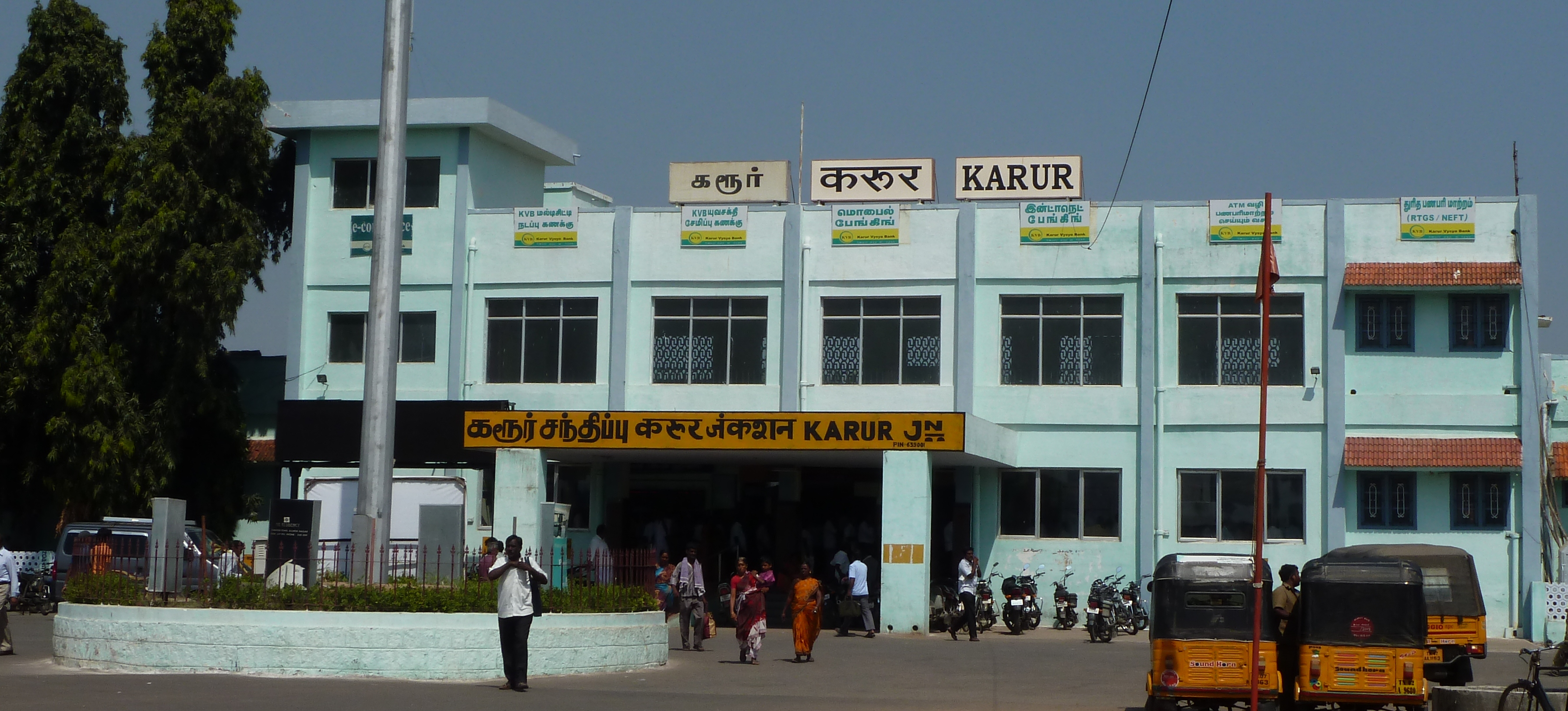 The entrance of Karur Railway station